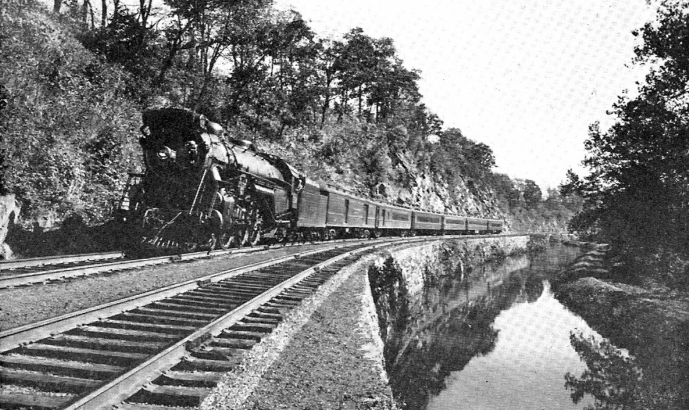 Postcard photo of the Queen of the Valley, which ran between New York City and Harrisburg, PA.